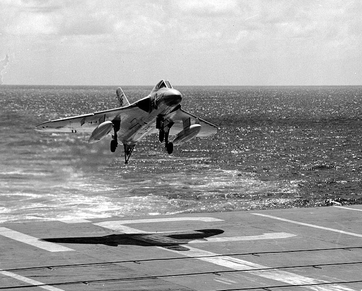 A U.S. Navy Douglas F4D-1 Skyray of Fighter Squadron 141 (VF-141) "Iron Angels" landing aboard the aircraft carrier USS Bon Homme Richard (CVA-31) on 30 August 1957. VF-141 was assigned to Carrier Air Group 5 (CVG-5) aboard the "Bonnie Dick" for a deployment to the Western Pacific from 12 July to 9 December 1957.